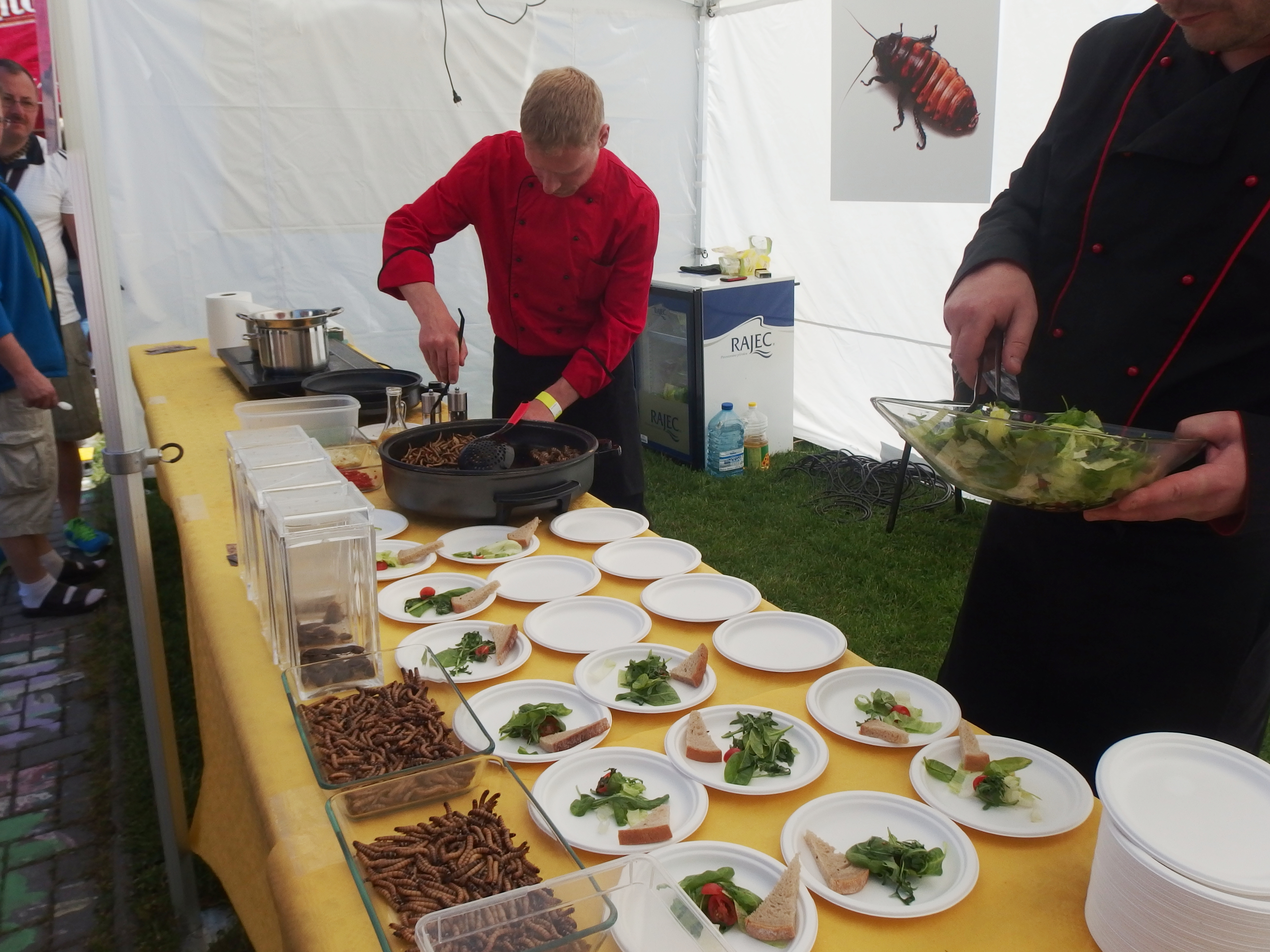 Olomouc, Czech Republic. Garden Food Festival 2015.